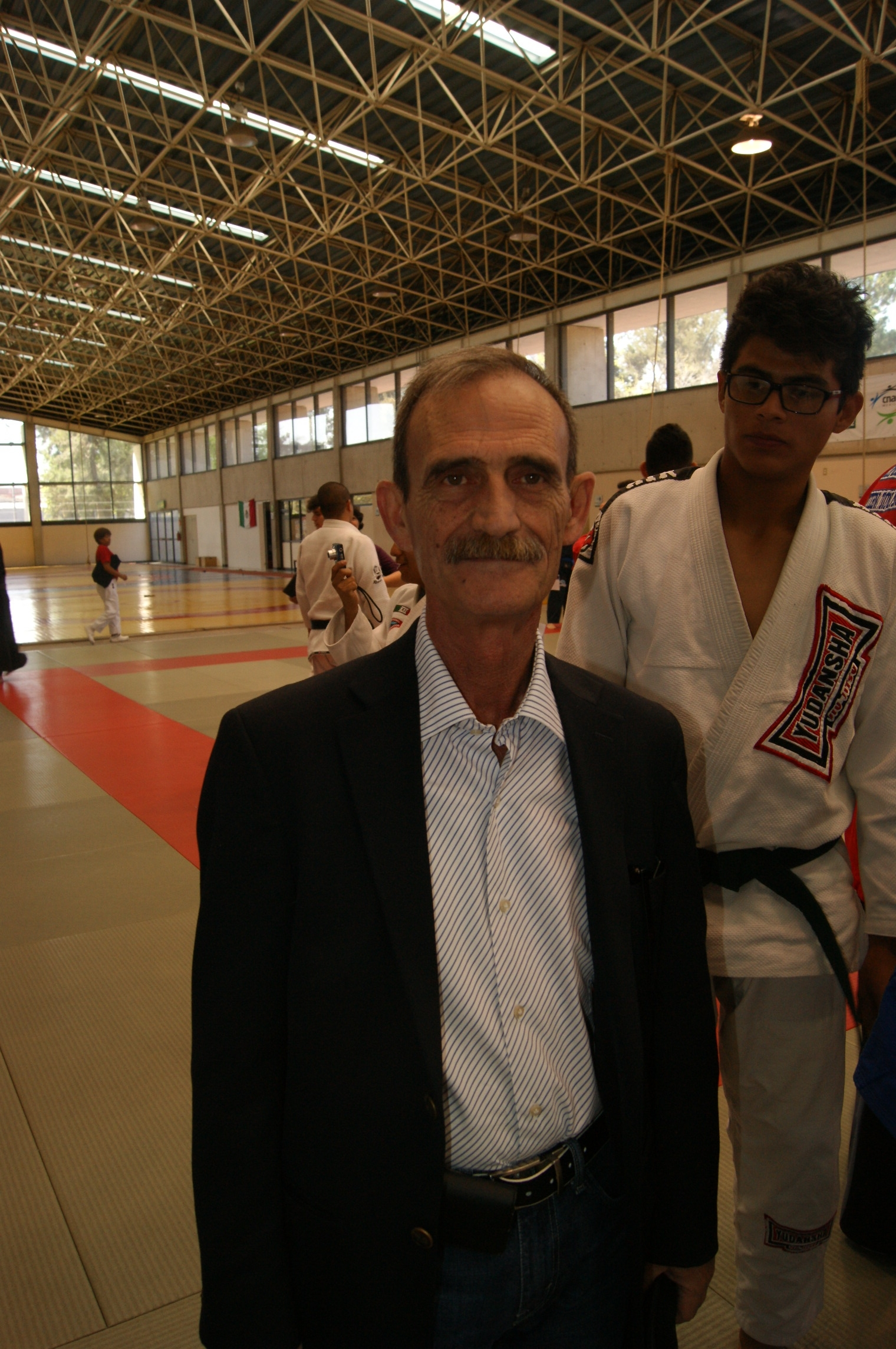 Panagiotis Theodoropoulus, president of Ju-Jitsu International Federation